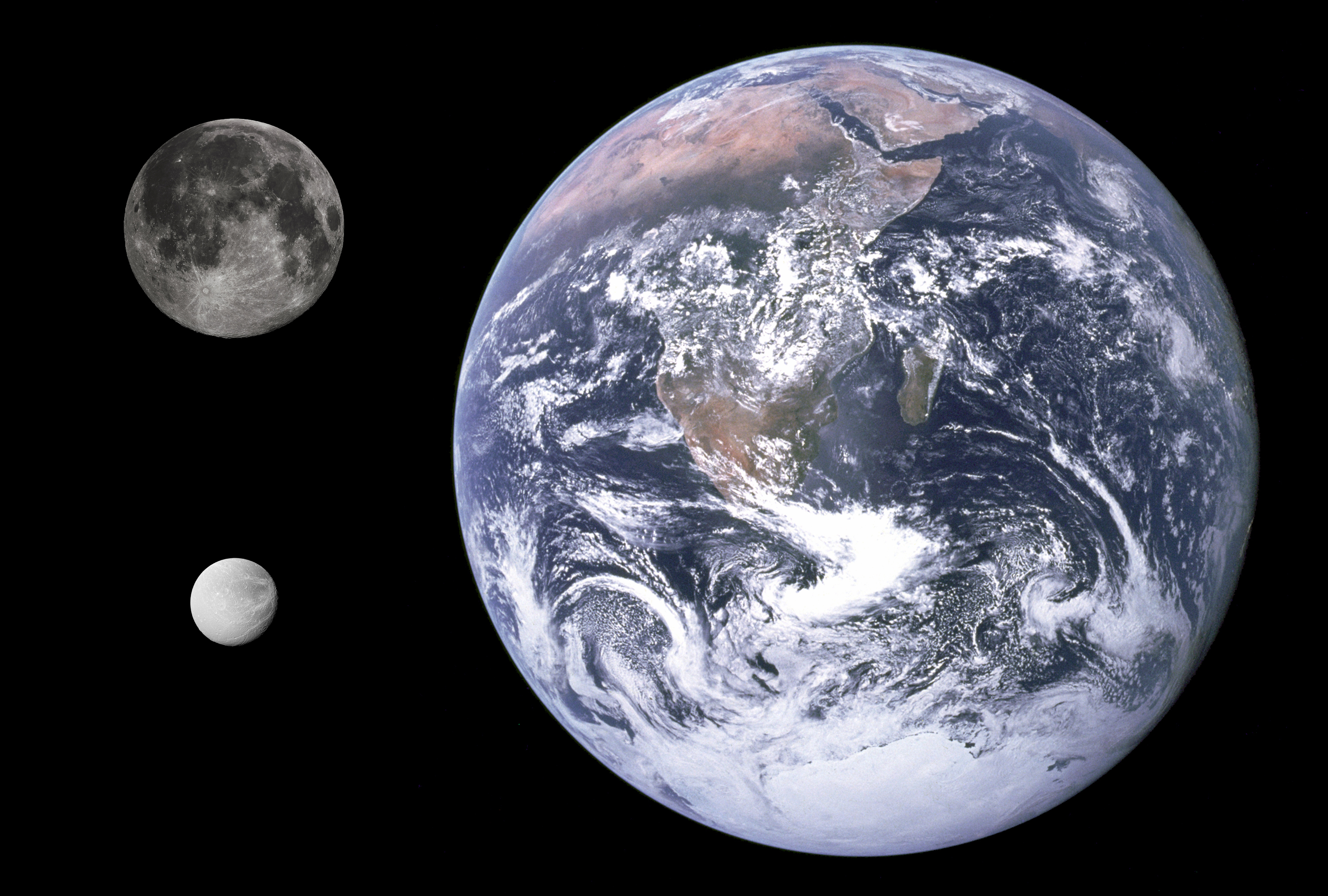 Diameter comparison of Saturn's moon Dione, the Moon and Earth Scale approx. 29km per px.